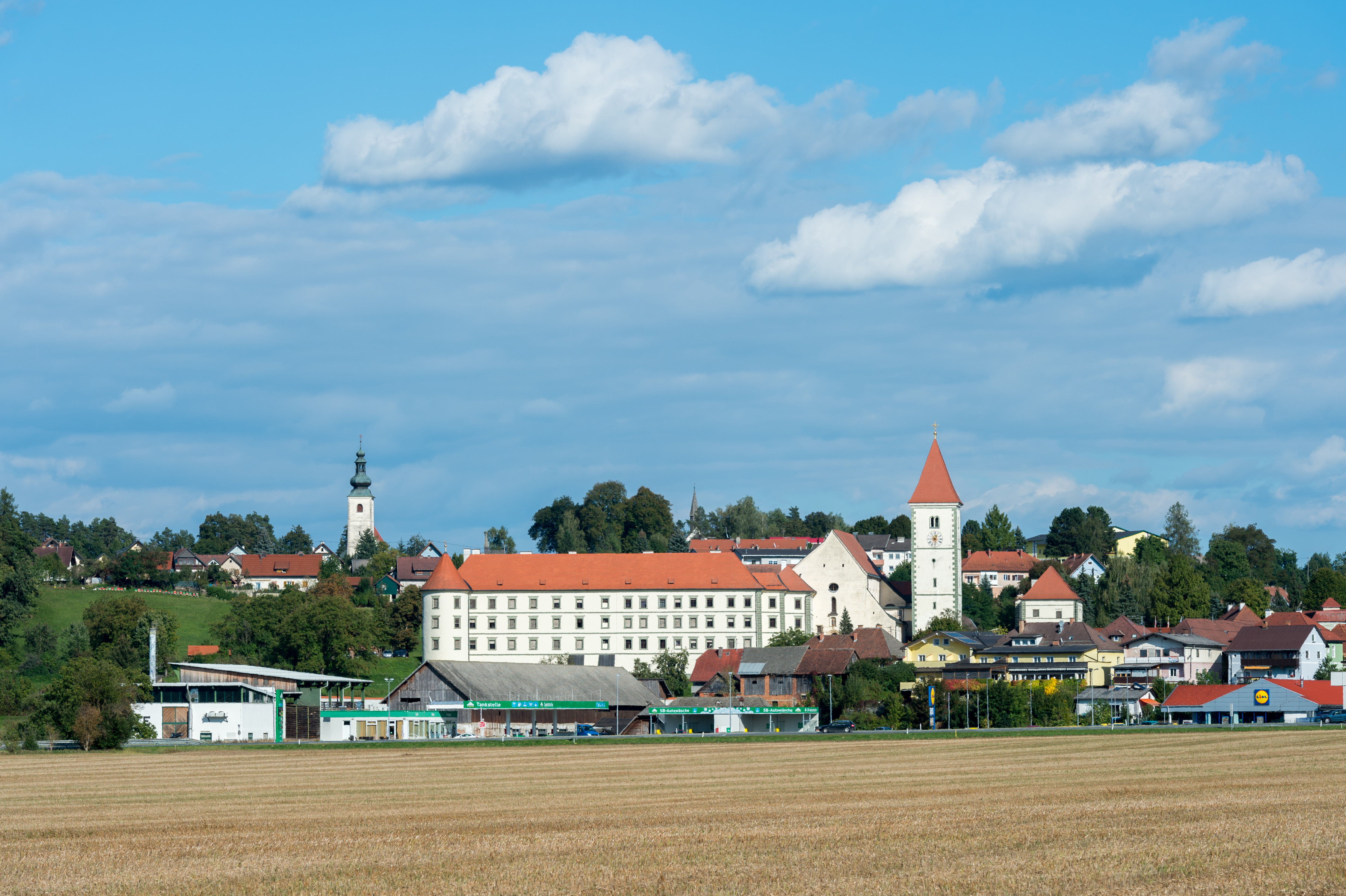 Western view at the former monastery (nowadays municipal office), market town Eberndorf, district Völkermarkt, Carinthia, Austria, European Union